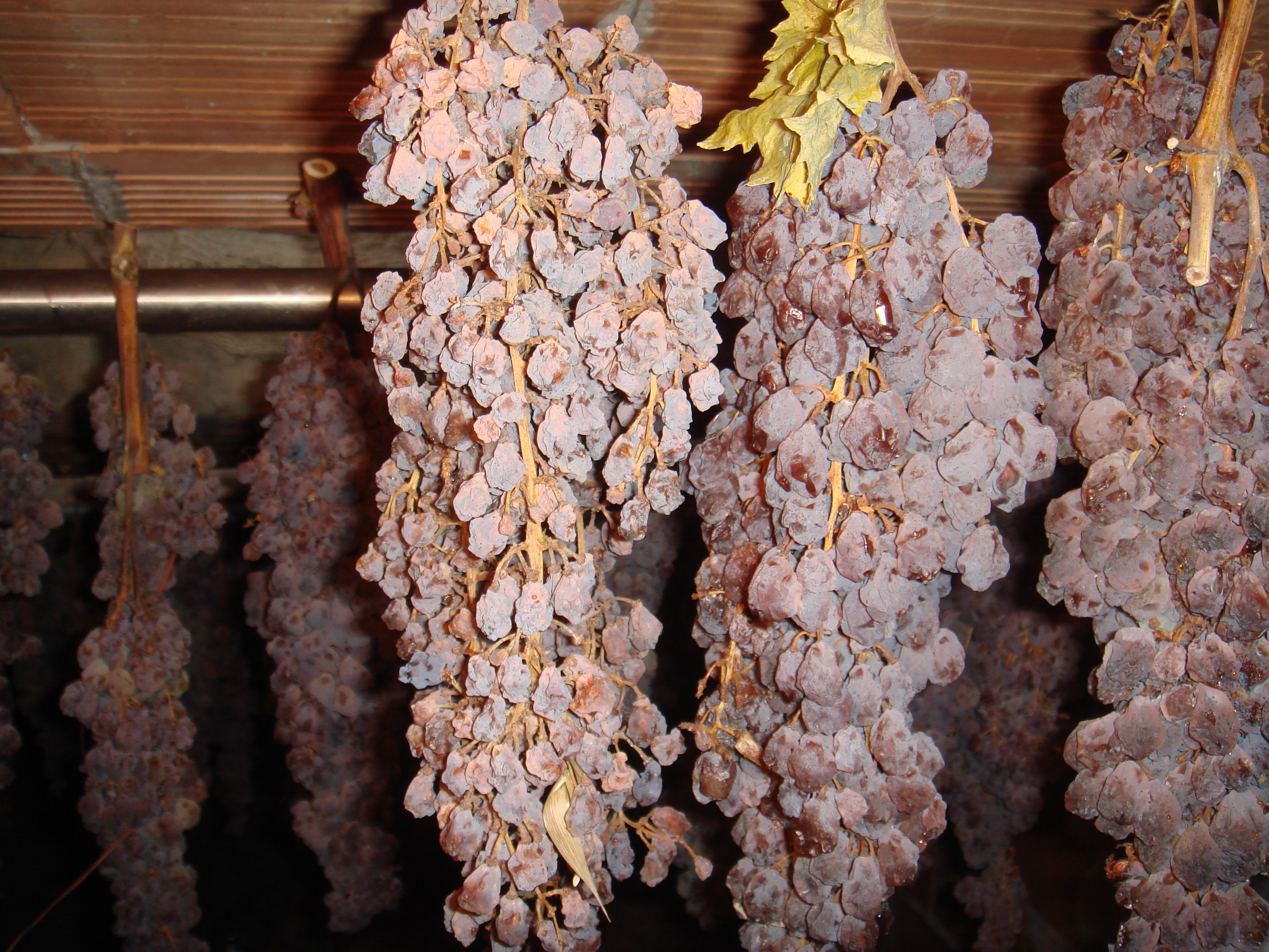 Production of the Italian straw wine, Vin Santo, begining with Trebbiano being dried until they are raisin and concentrated with sugar.